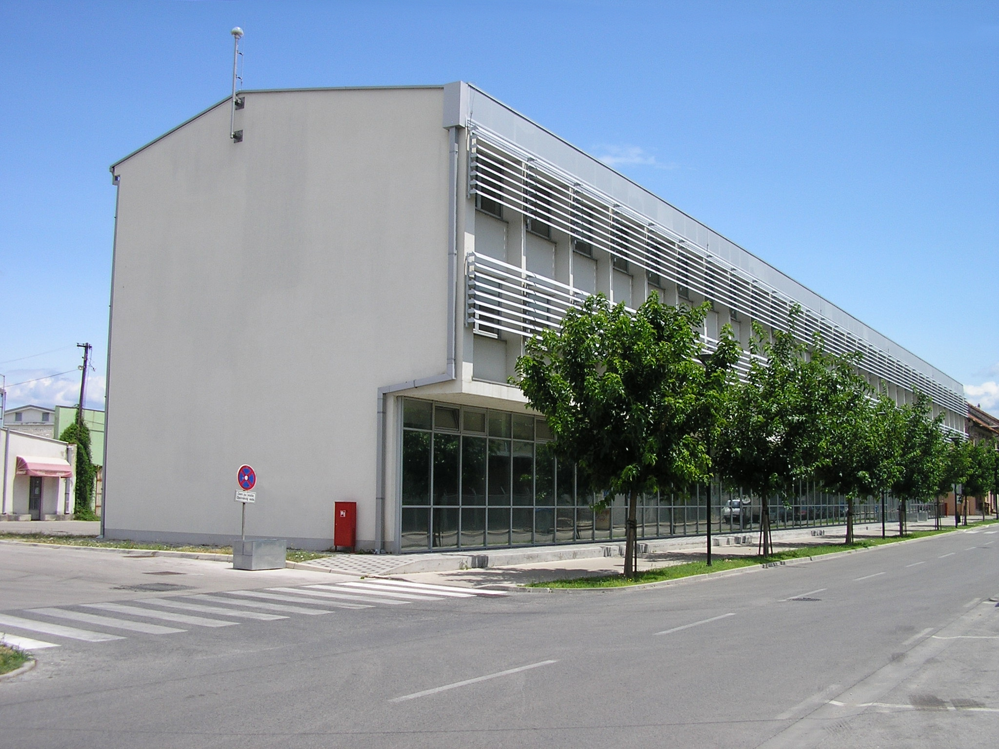 Courthouse in Metković